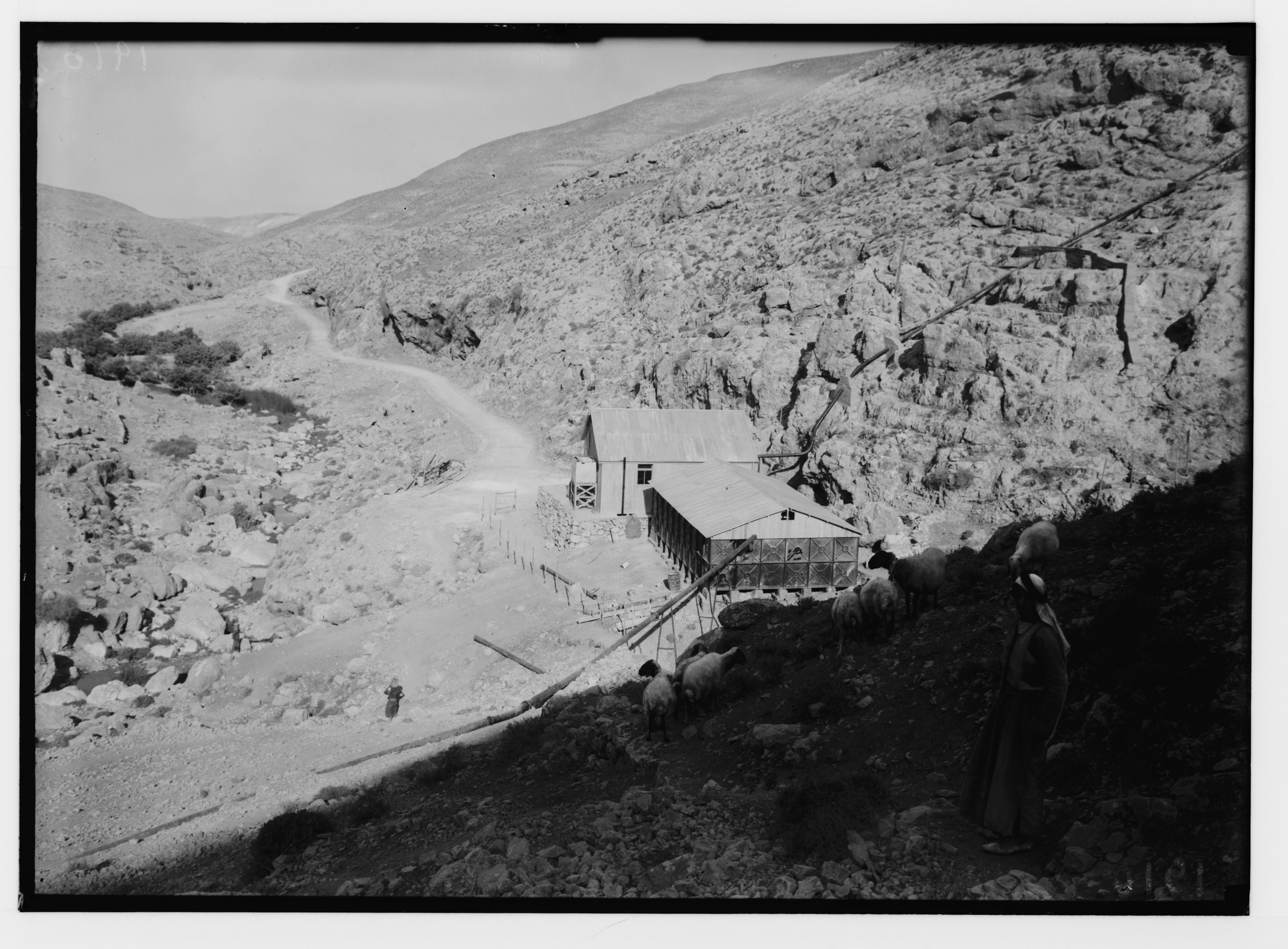 Title: Jerusalem water works. Pumping station at Ain Farah Abstract/medium: G. Eric and Edith Matson Photograph Collection Physical description: 1 negative